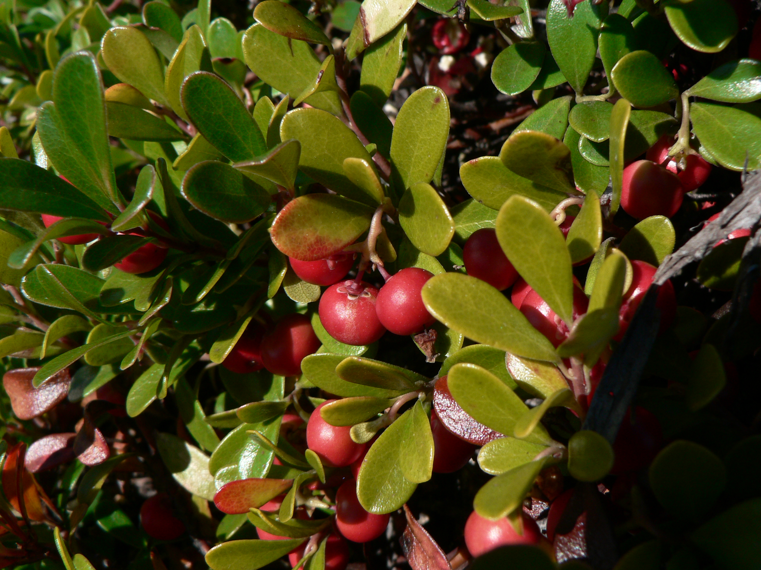 Kinnikinnick